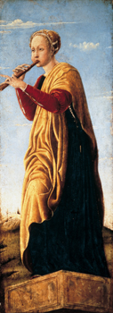 The Muse Euterpe